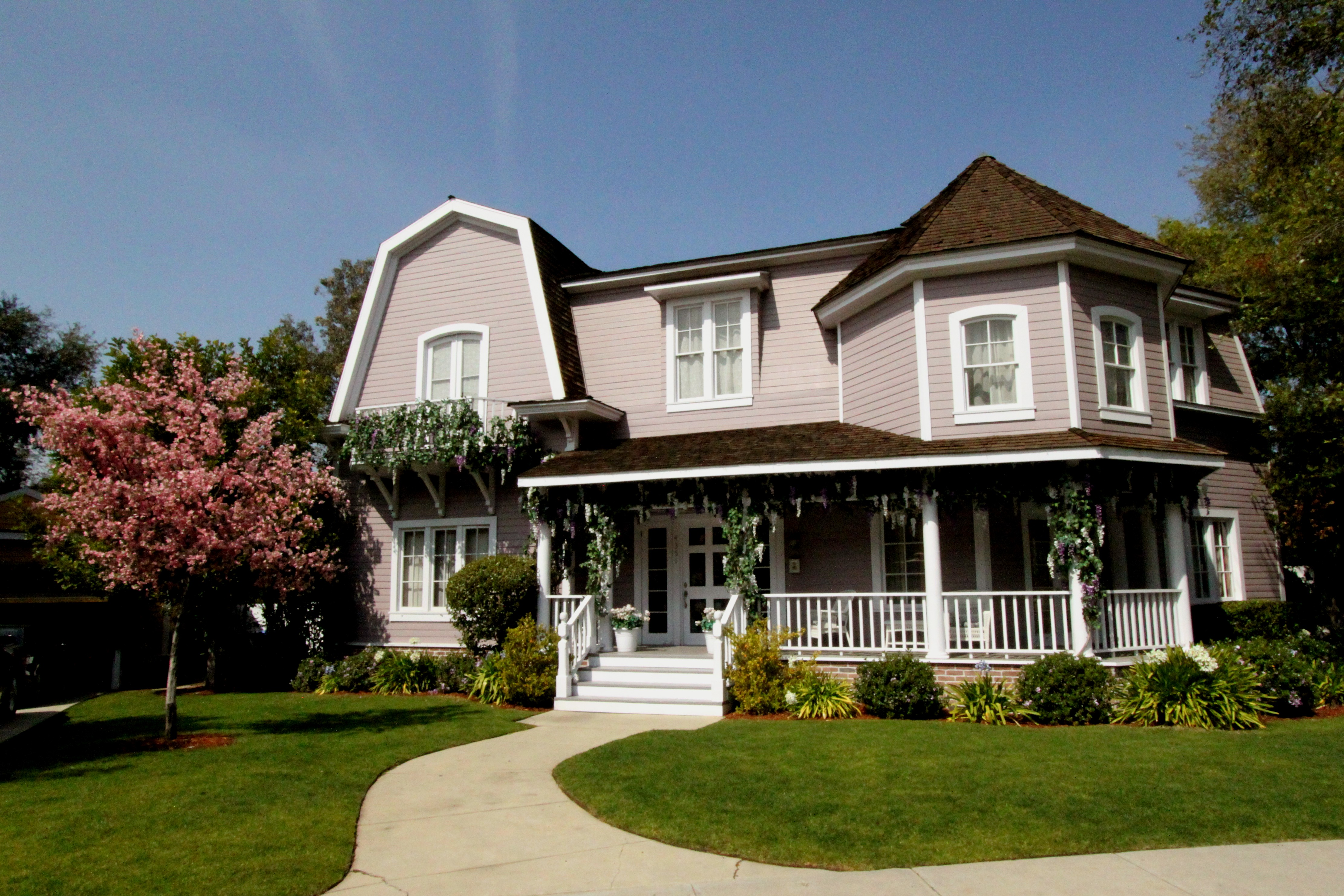 Photo representing the "Munster home", featured in the TV show The Munsters. In Desperate Housewives, the house is located on 4351 Wisteria Lane and its inhabitants are Bob Hunter and Lee McDermott since the 4th season. It was previously owned by Betty Applewhite (season 2) and later by Alma Hodge (season 3).